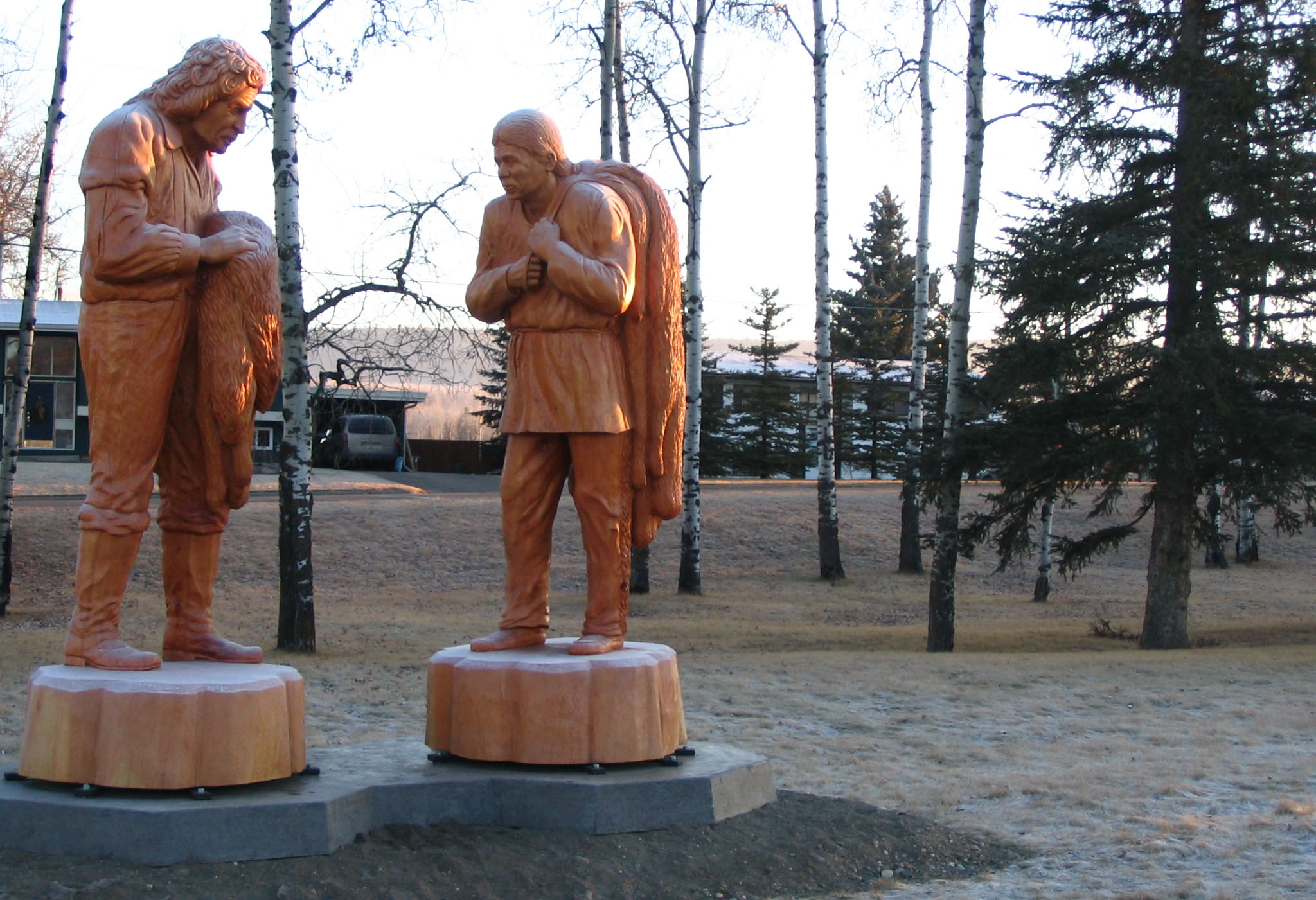 Hudson's Hope, British Columbia (Memorial Park)